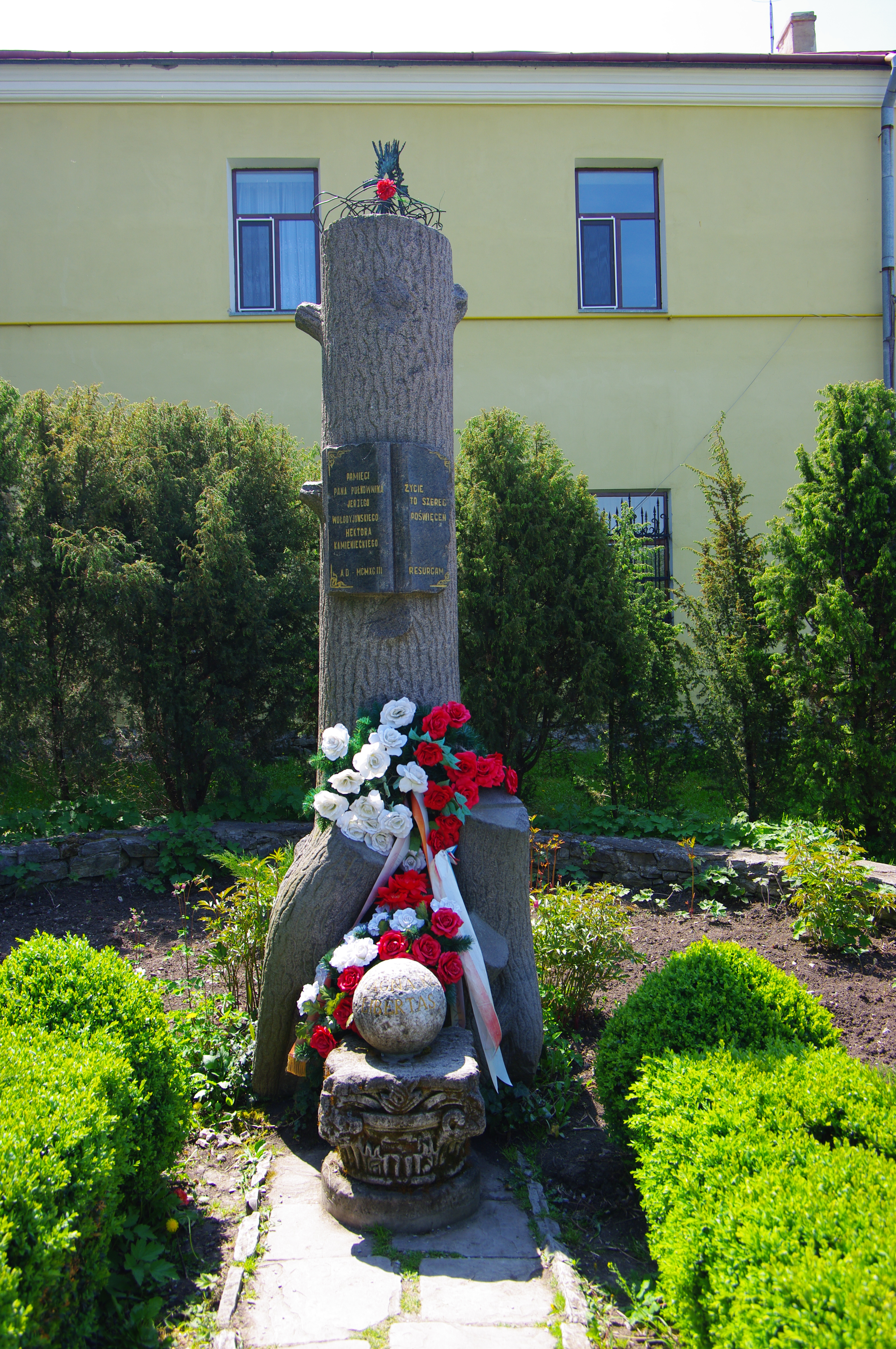 Kamyanets Podilsky Monument